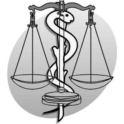 Medical Justice Icon